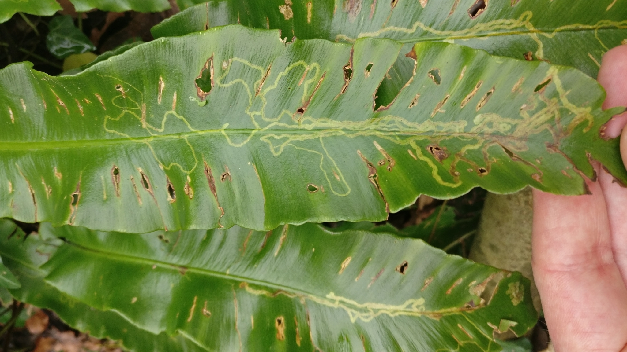 Leaf miner tunnels of Phytomyza scolopendri (a species of insect) in leaves of Hart's-tongue Fern (Asplenium scolopendrium ssp. scolopendrium).